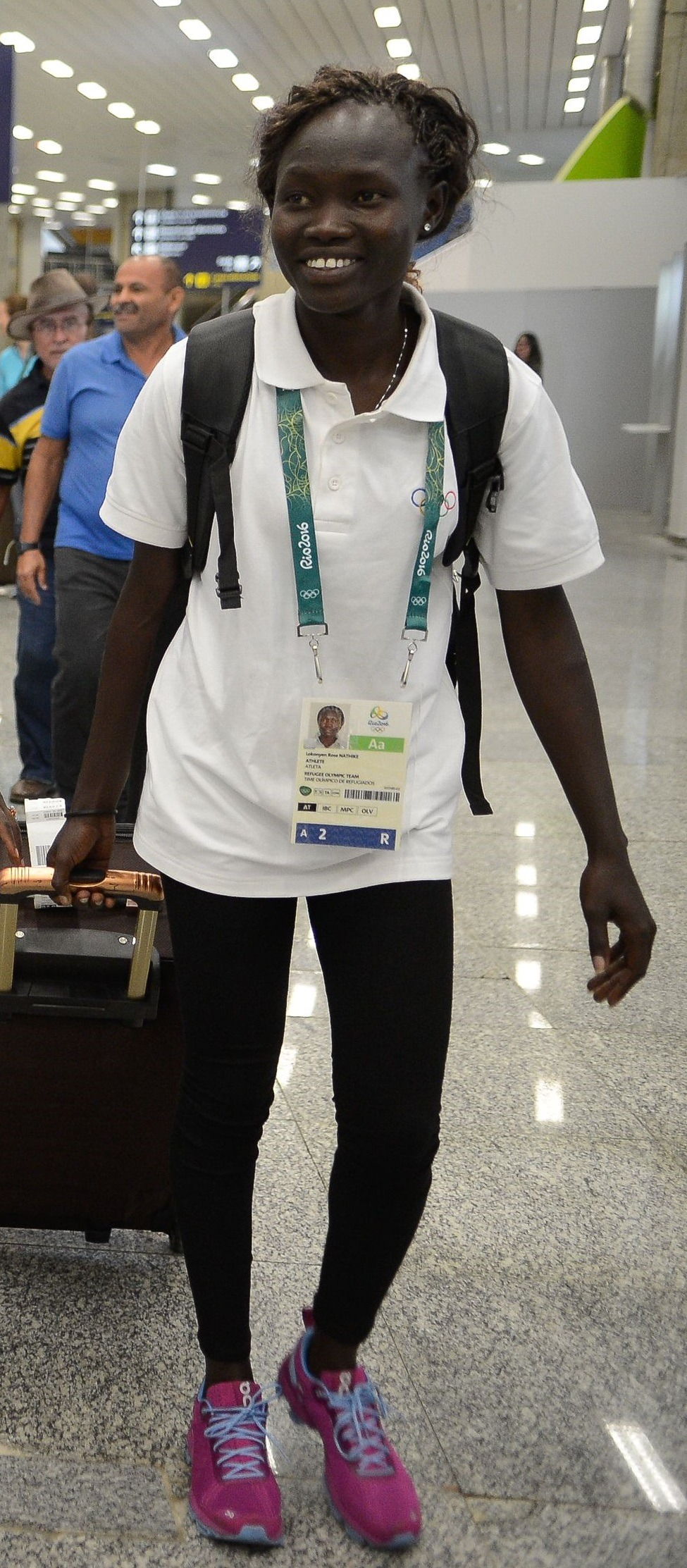 Rio de Janeiro - Rose Nathike Lokonyen arrives in Rio for the 2016 Summer Olympic Games (Photo by Tomaz Silva/Agência Brasil)